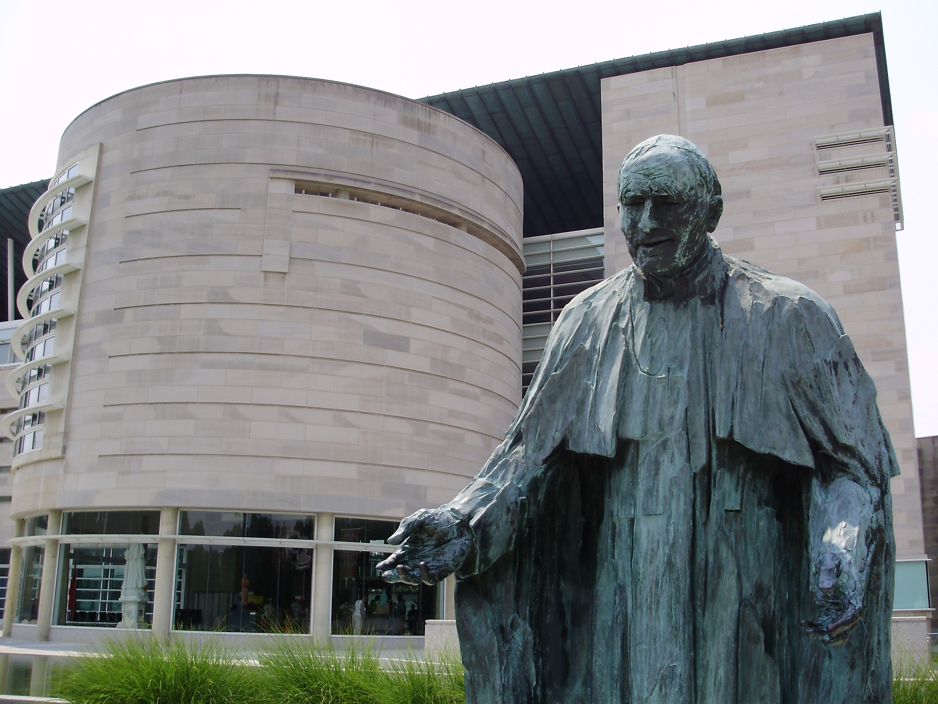 John Paul II Cultural Center in Washington DC, Centrum Jana Pawła w Waszyngtonie DC DateJune 2008SourceOwn workAuthorWaszyngtonPermission (Reusing this file) selfmade Licensing John Paul II Cultural Center in Washington DC, Centrum Jana Pawła w Waszyngtonie DC